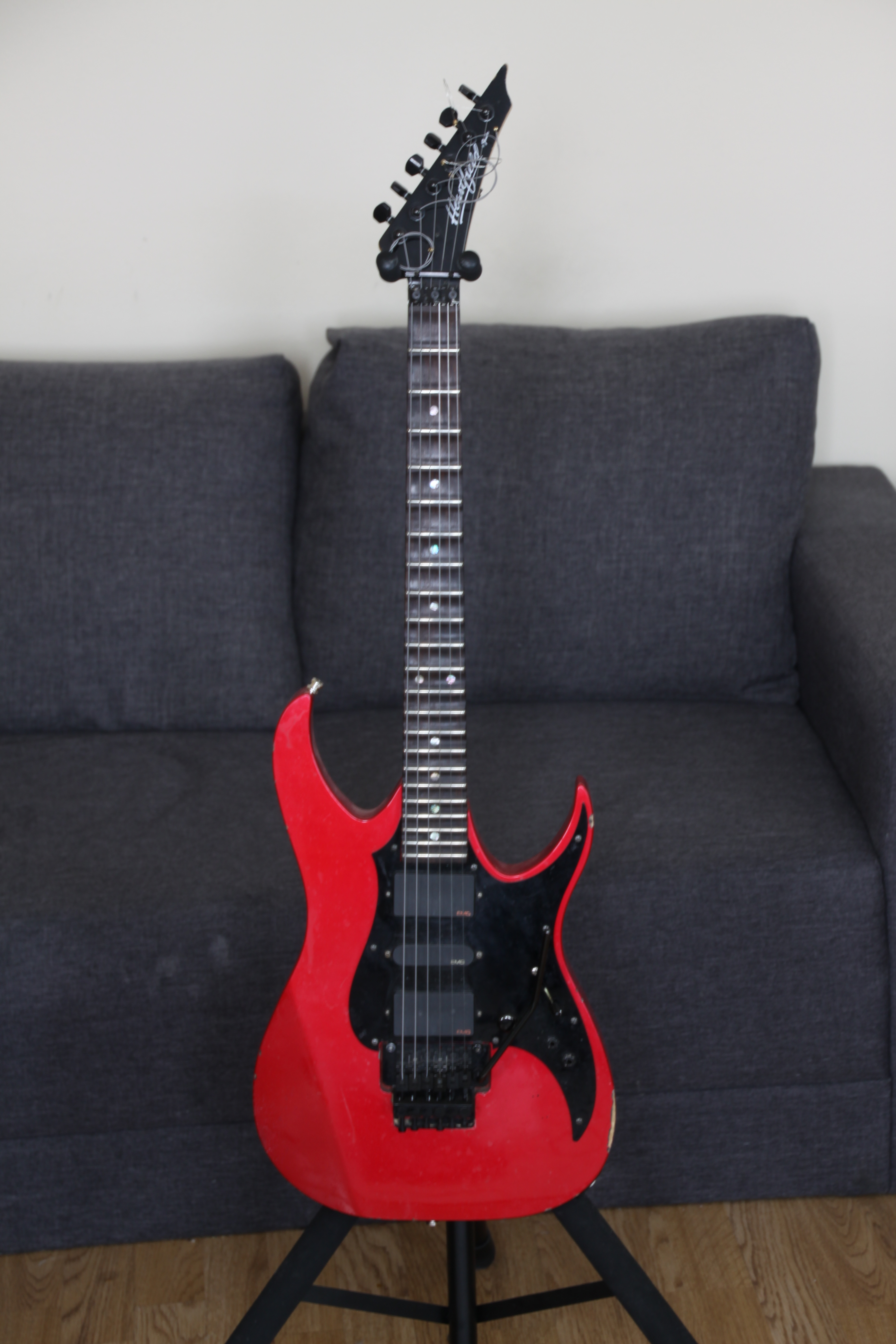 Heartfield by Fender superstrat guitar with EMG-pickups and scalloped fretboard.